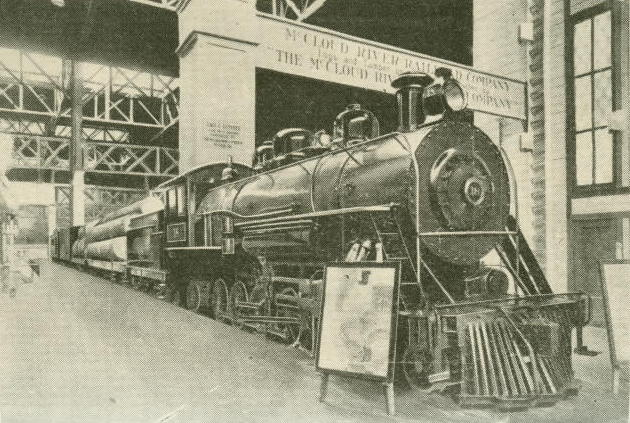 McCloud Railway No. 18. A drawing of the #18 and the special train that the railroad sent to the Panama-Pacific Exposition in San Francisco, CA, in 1915.